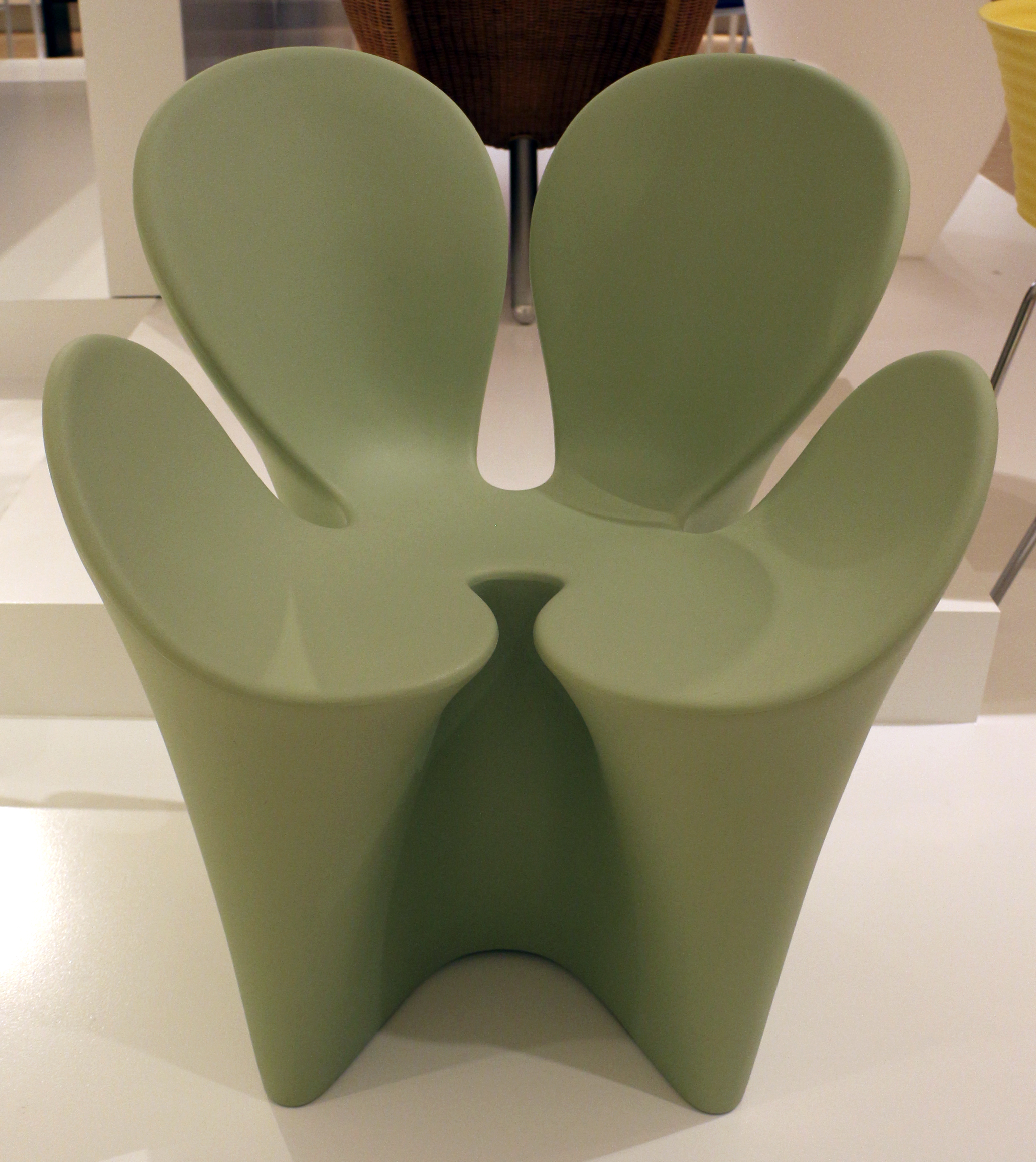 Furniture in the Indianapolis Museum of Art